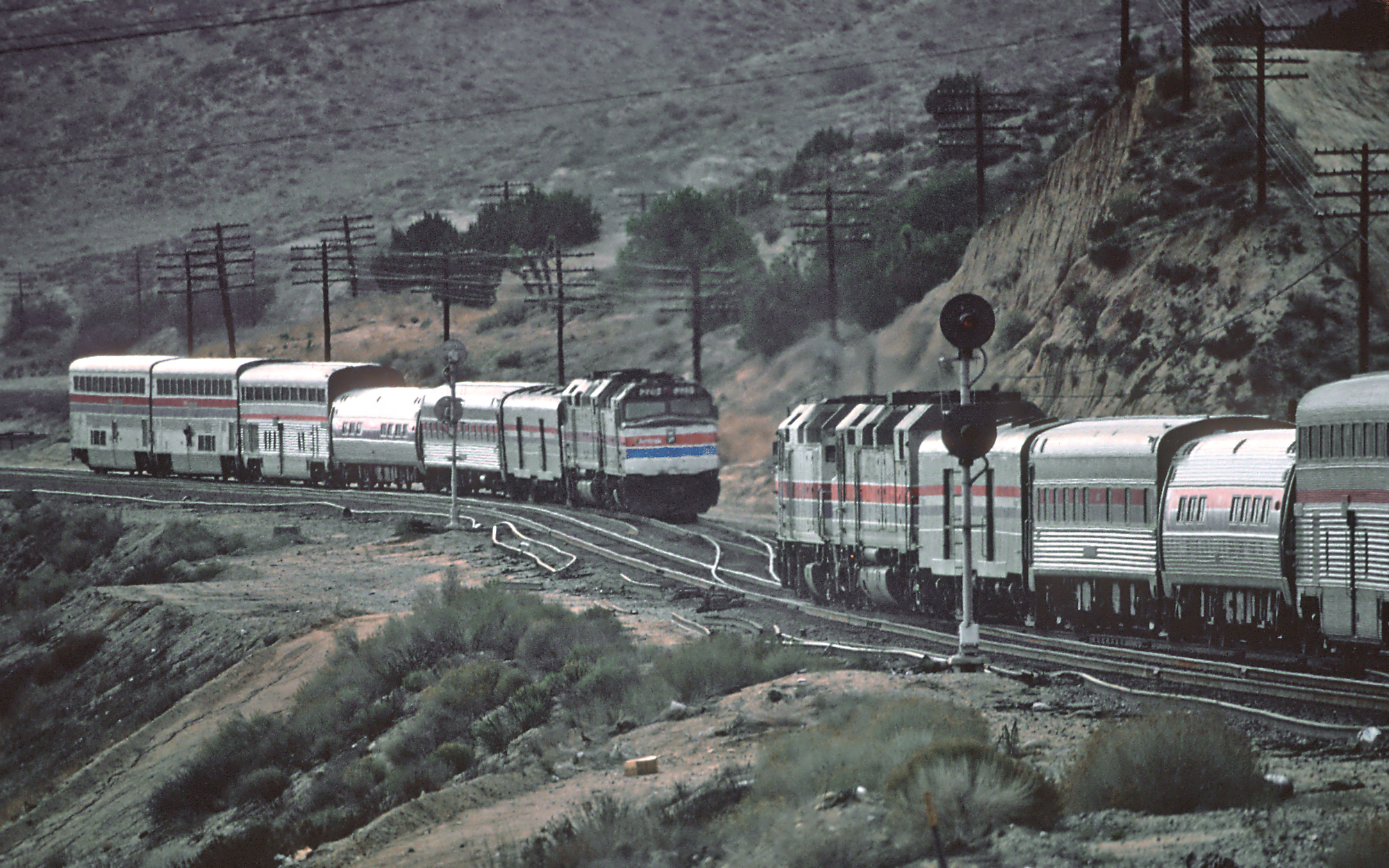 Two Desert Wind trains meet at Lugo, California on the east side of Cajon Pass in February 1981. This was during the brief period where the train operated with F40PH/SDP40F pairs; the SDP40F locomotives had been outfitted with heavy pass-through cables to allow the leading F40PH locomotives to supply head-end power to the passenger cars.